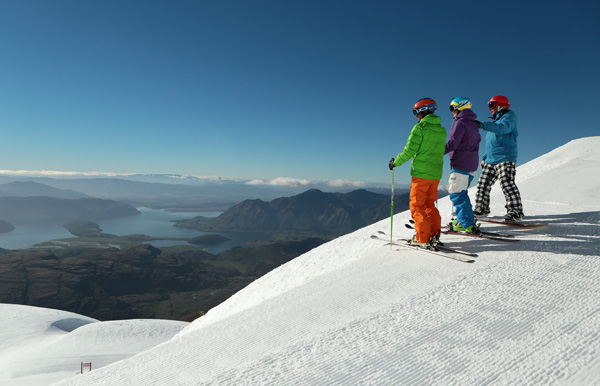 Treble Cone overlooking Lake Wanaka